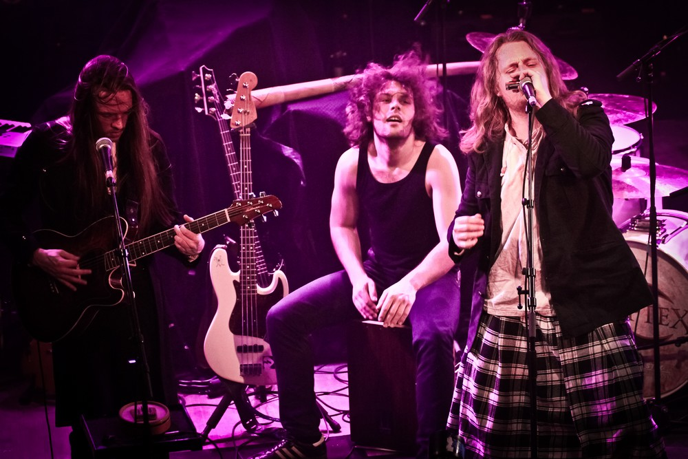 Cryptex live at the Divan du Monde in Paris, 2012